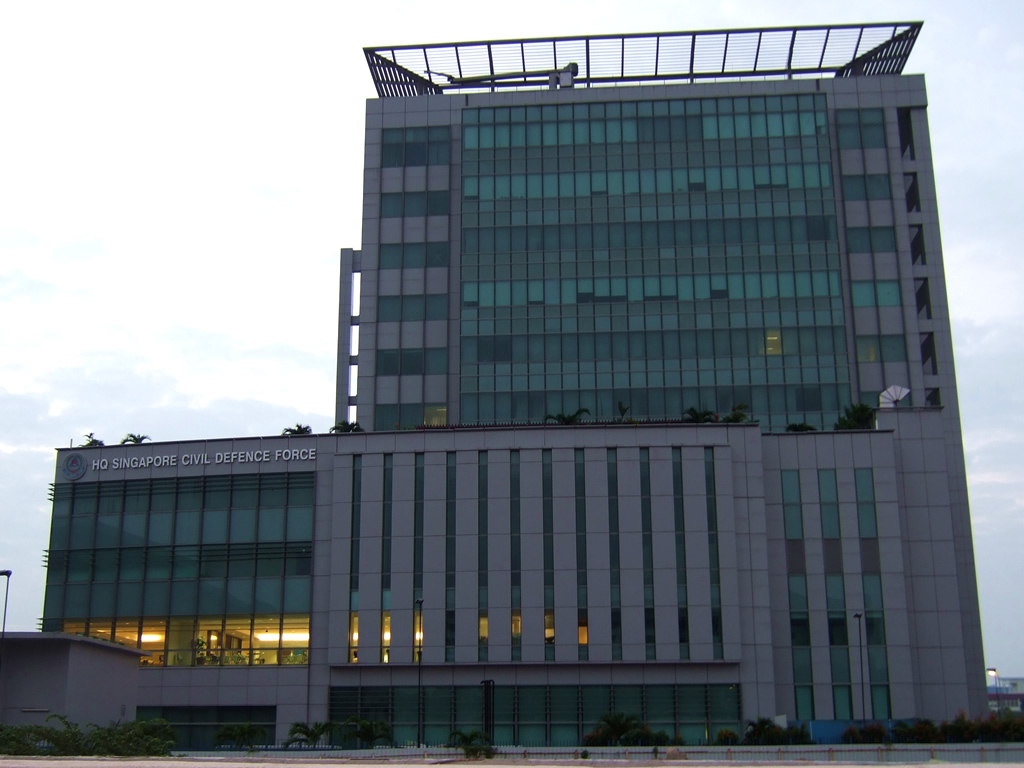 Singapore Civil Defence Force, Headquarters, main office tower.